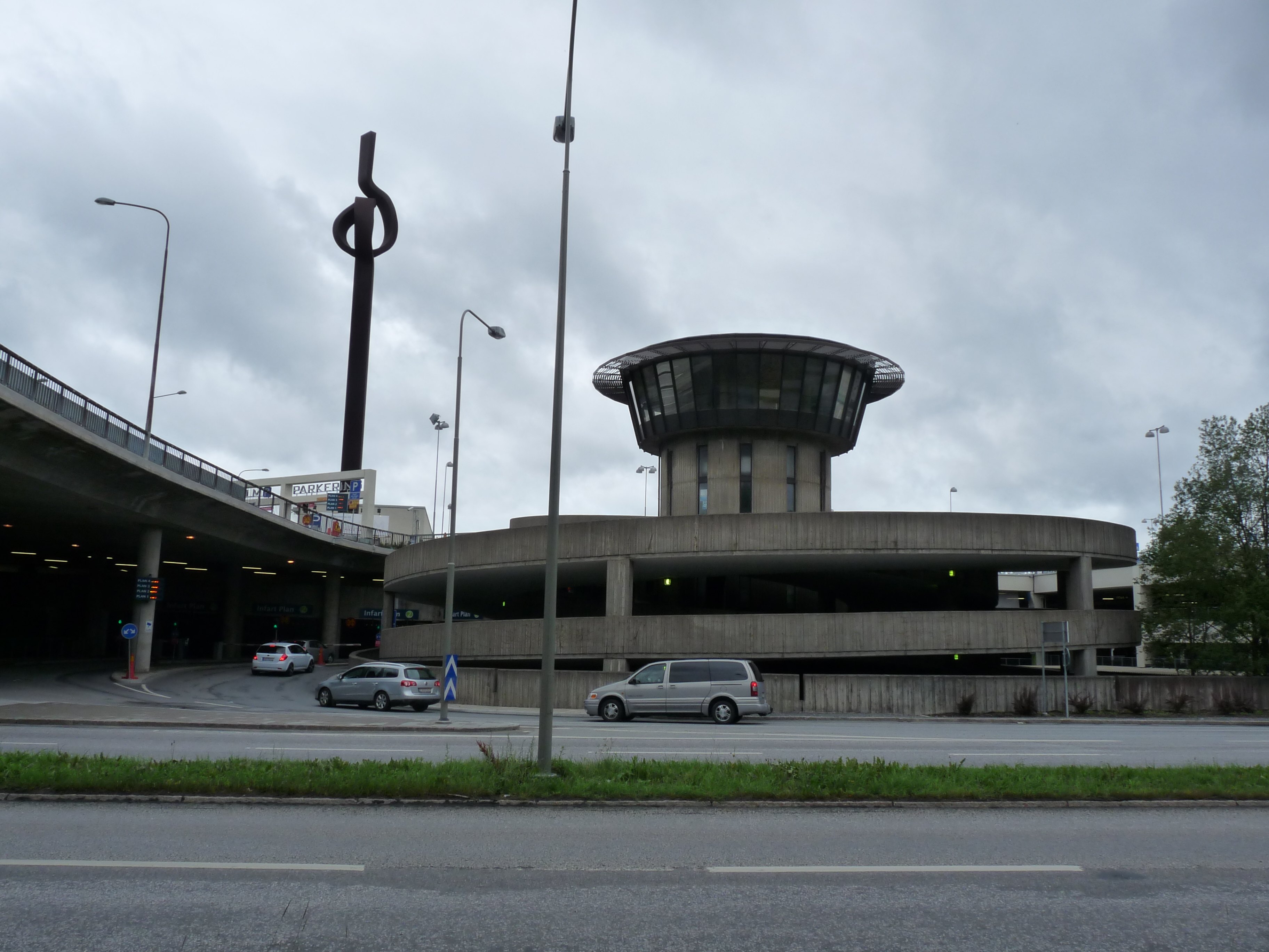 Skärholmen district in Stockholm, Sweden